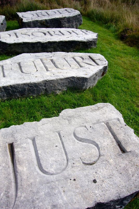 sculptures/objects in the sculpture park Little Sparta by Ian Hamilton Finlay in Scotland/U.K.